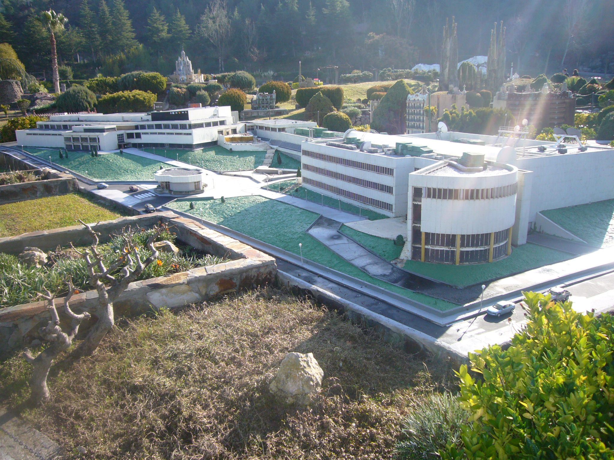 Scale model at the "Catalunya en Miniatura" miniature park : Headquarters of Televisió de Catalunya